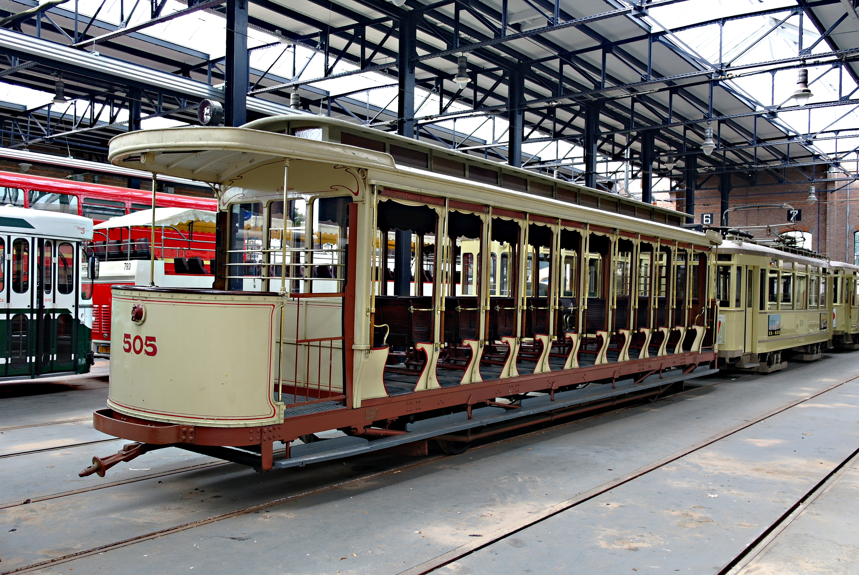 Tram trailer 505, The Hague, The Netherlands